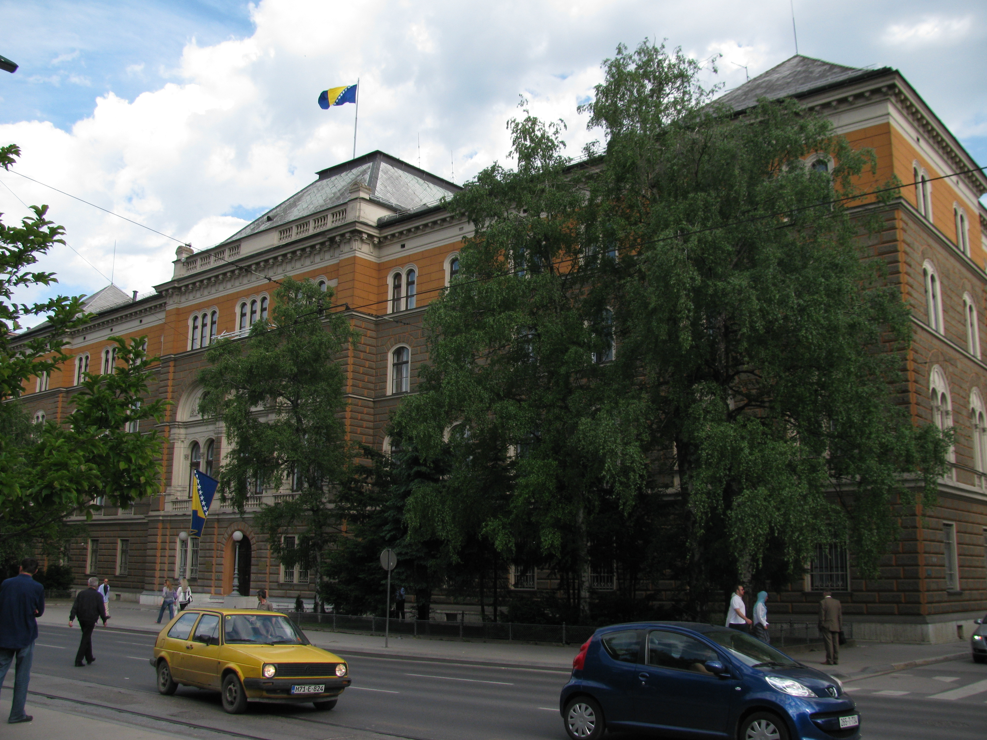 Predsjedništvo BiH 2010